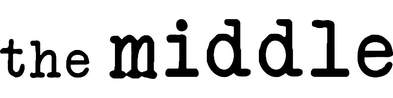 Logo from ABC Comedy The Middle